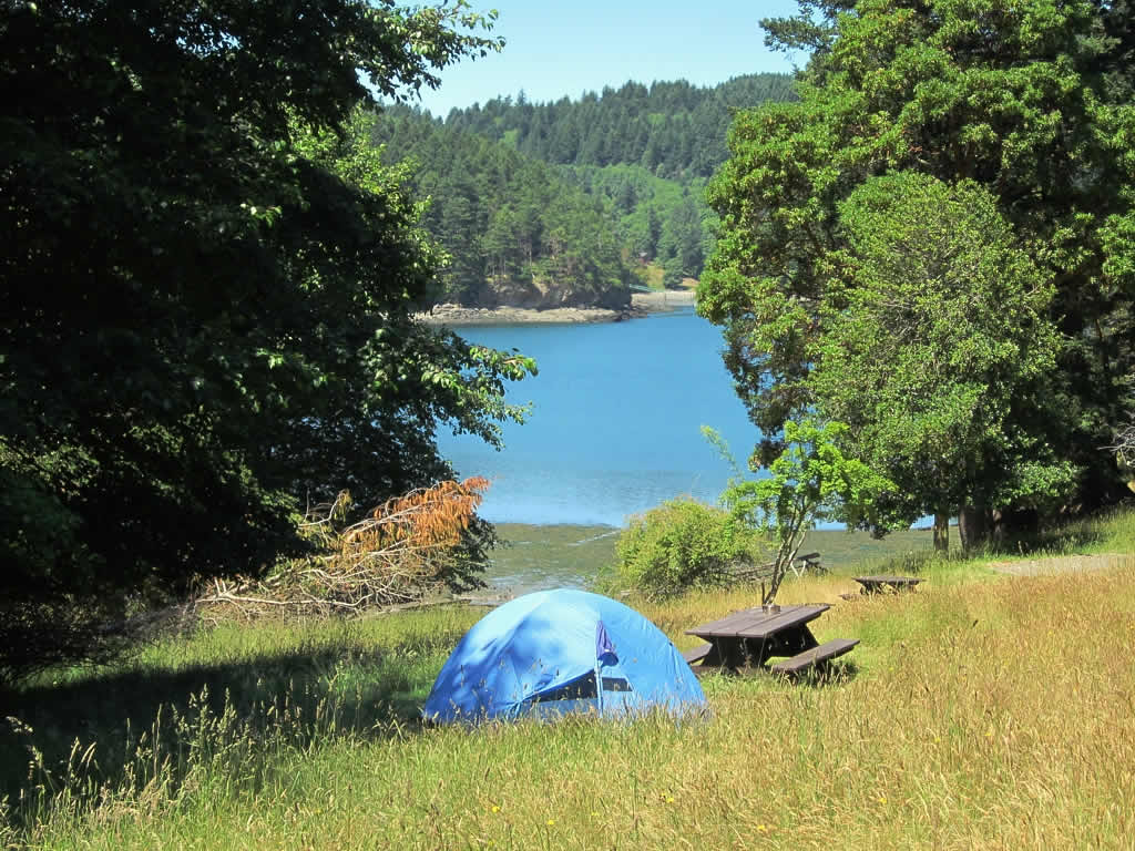 the campsite on Narvaez Bay in Gulf Islands National Park Reserve, Saturna Island, British Columbia, Canada